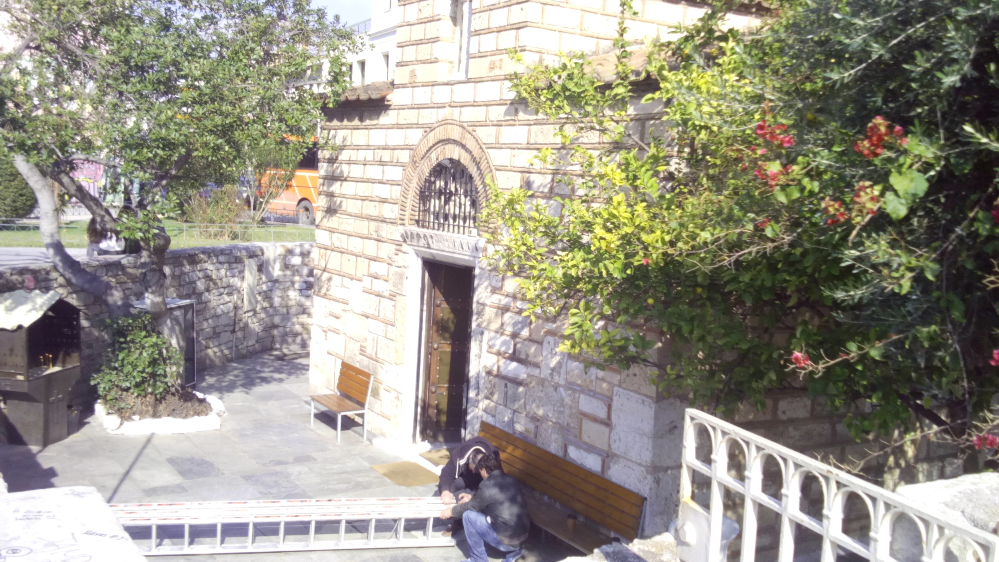 The Holy Church of St. Asomati (Agii Asomati) in Thisseion, (Athens) originally built between the 11th and 12th century. In later centuries, many additions were made, but in 1959, the church was restored to its original form.